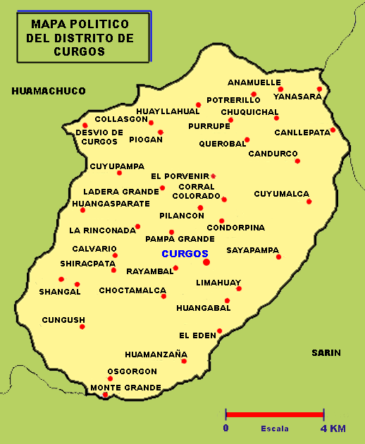 I,Wilson Daza, the author of this work, publish it under the following license (see below)